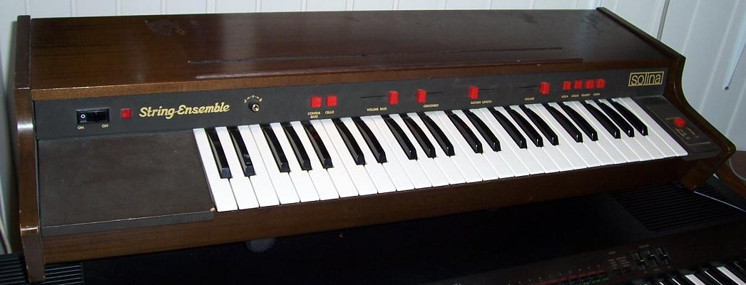 Solina String Ensemble. Note: ARP logo is not found on the front panel, thus it may be an original Solina String Ensemble (not the ARP's OEM version).